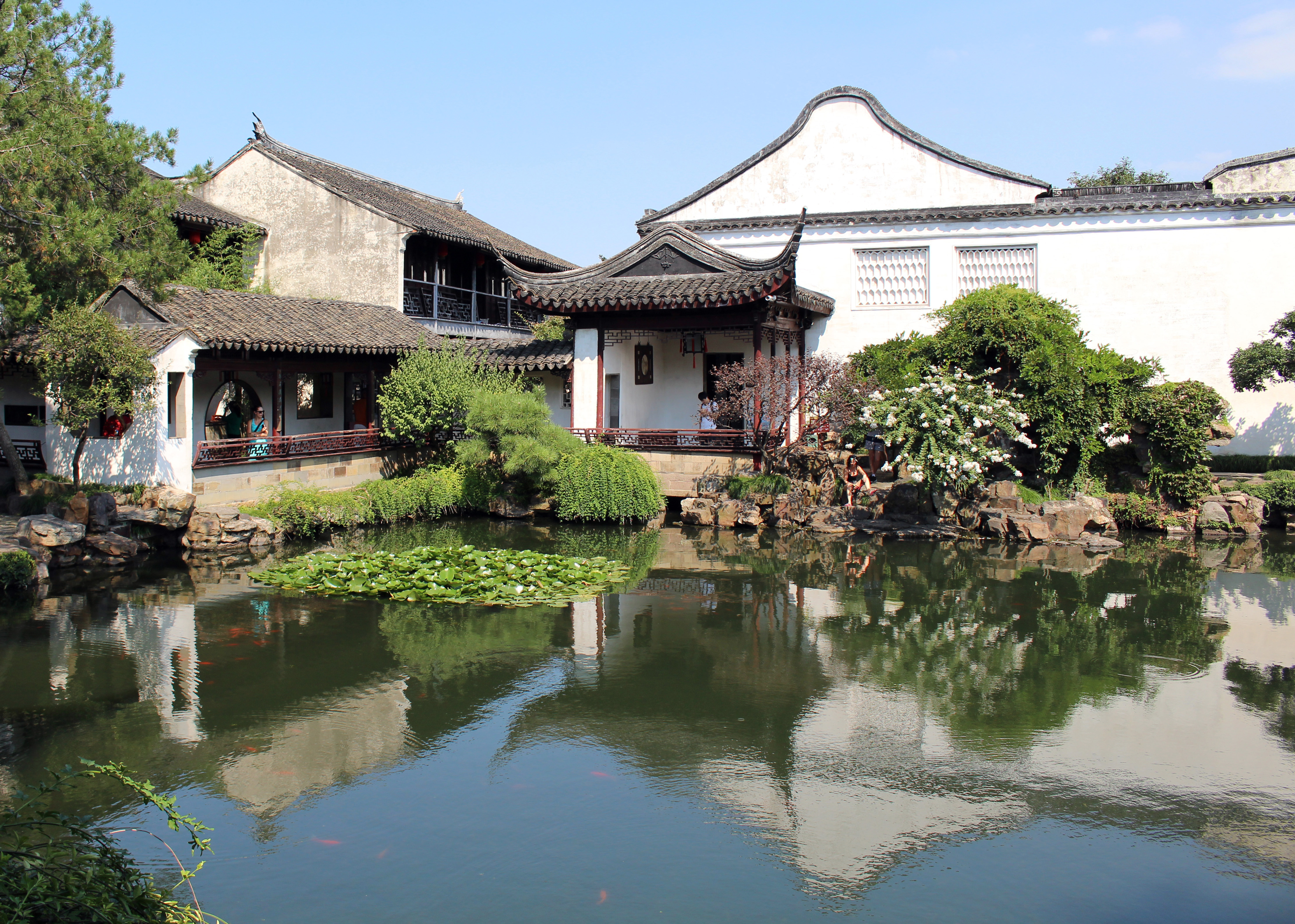 The Master of the Nets Garden in Suzhou, Jiangsu, People's Republic of China.